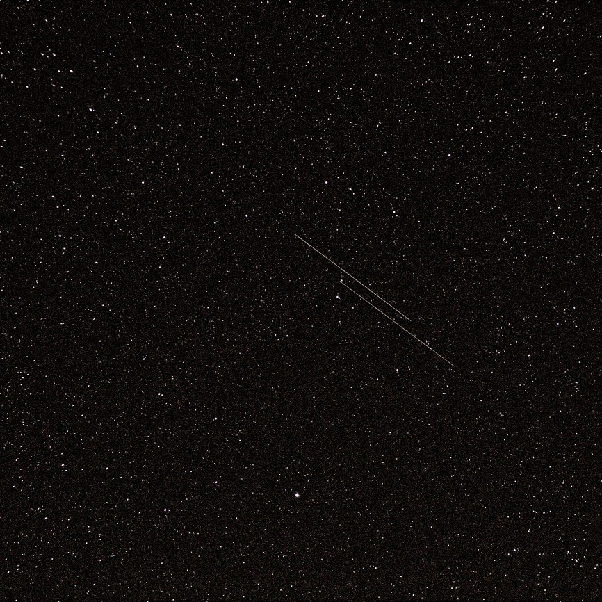 NOSS 3-3 duo passing by Polaris (bright star in the bottom). Movement in this 12.3s exposure is from upper-left to bottom-right; the A object is leading.